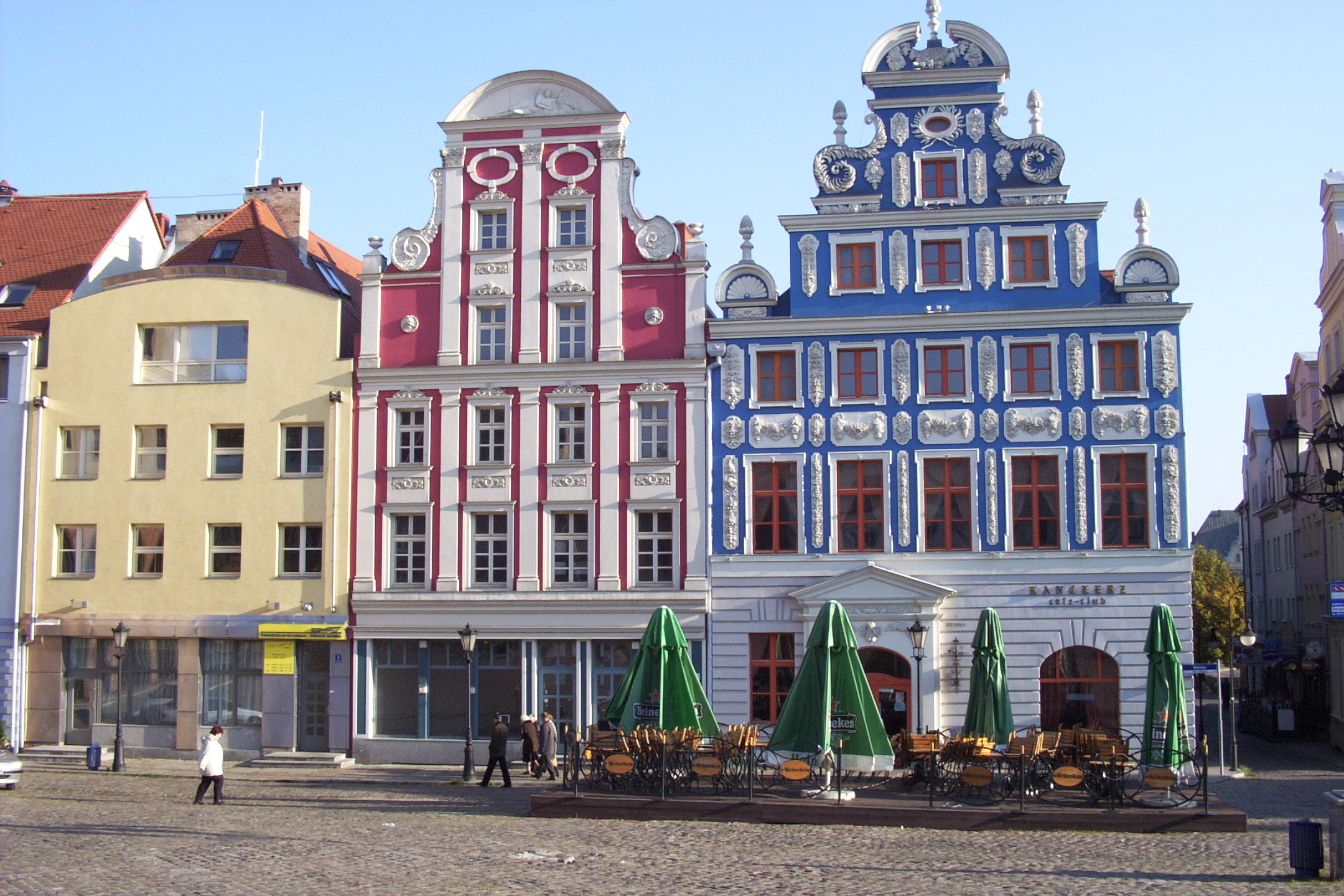 Facades of new buildings in Szczecin's Old Town.